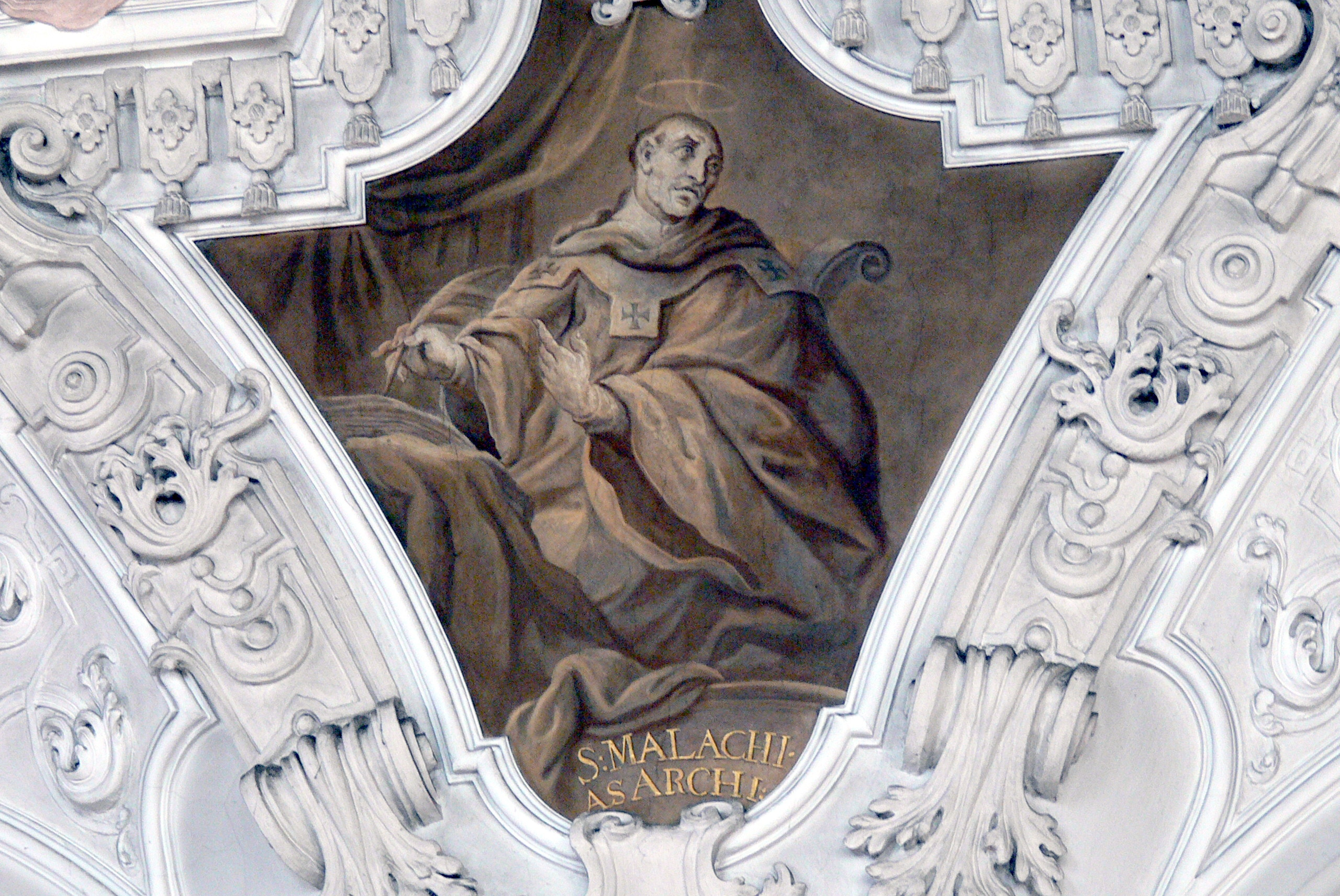 Metten ( Lower Bavaria ). Abbey church: Fresco ( 1722/24 ) by Wolfgang Andreas Heindl - Saint Malachy.